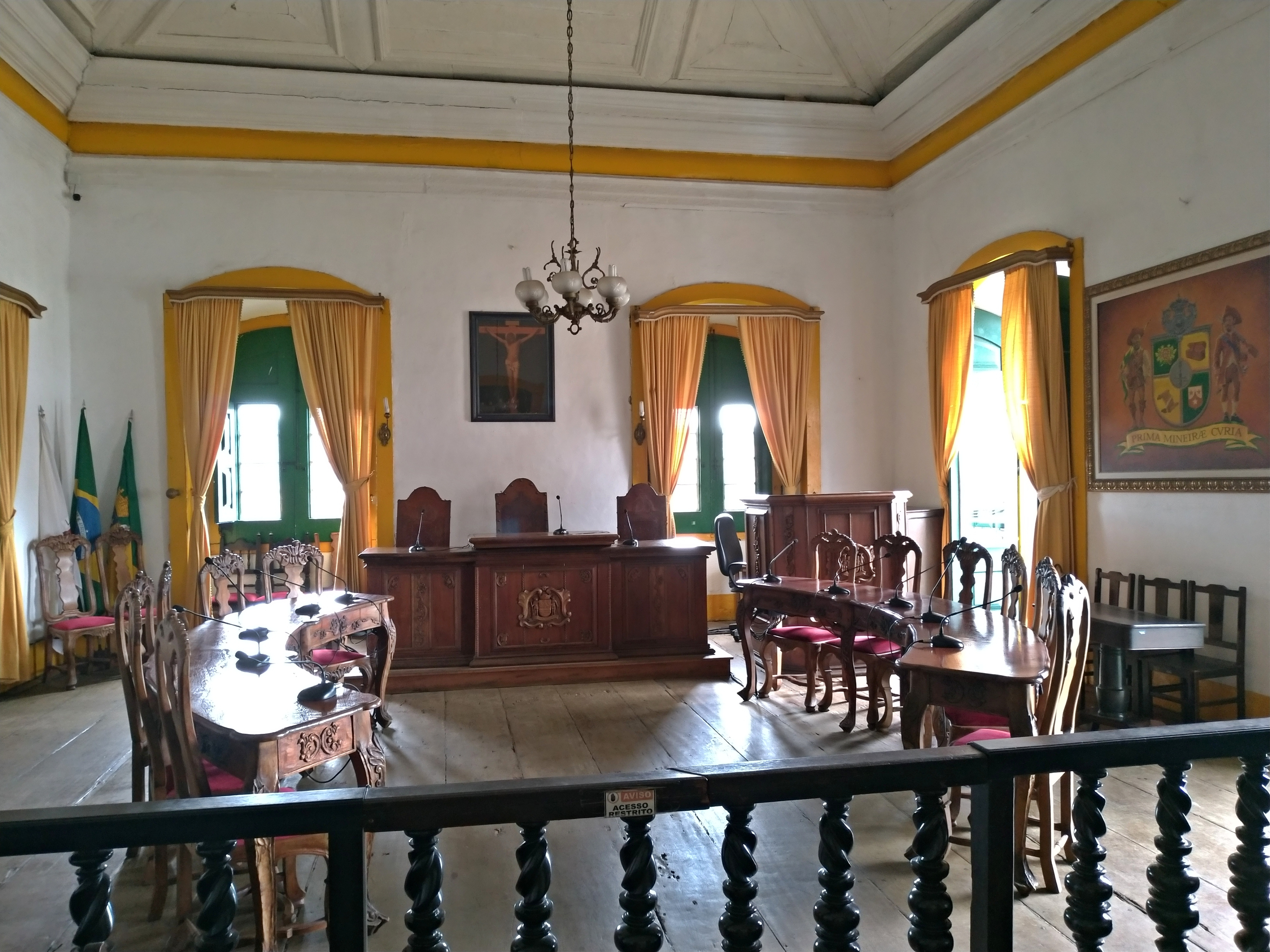 Plenary of the city council of Mariana, Minas Gerais, Brazil, which works in the interior of the old Town Hall and Prison.